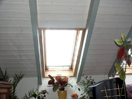 Natural light view of a leaky roof window under pressure test using a blower door (See also: Infrared photo of the same window)